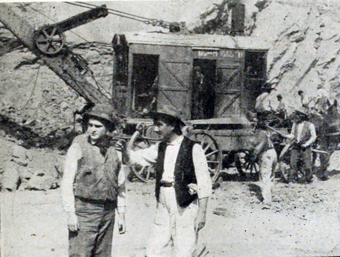 Illustration of an article in The Moving Picture World